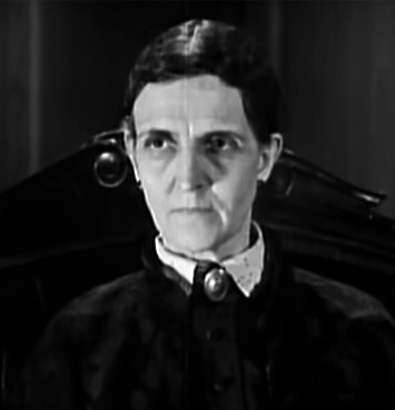 Martha Mattox in The Monster Walks - cropped screenshot